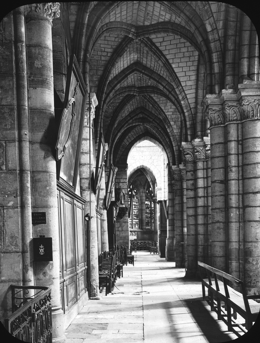 St. Alpin, Chalons, France, 1903. St. Alpins. Chalons the left aisle; Series 1903. Brooklyn Museum Archives, Goodyear Archival Collection (S03_06_01_003 image 1634). Help us map this image by using Suggestify to suggest a location for it.